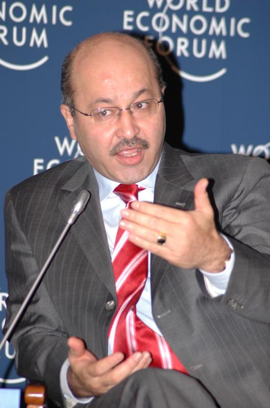 Dr. Barham Salih. A high member of the PUK and currently is the Prime Minister of the KRG.